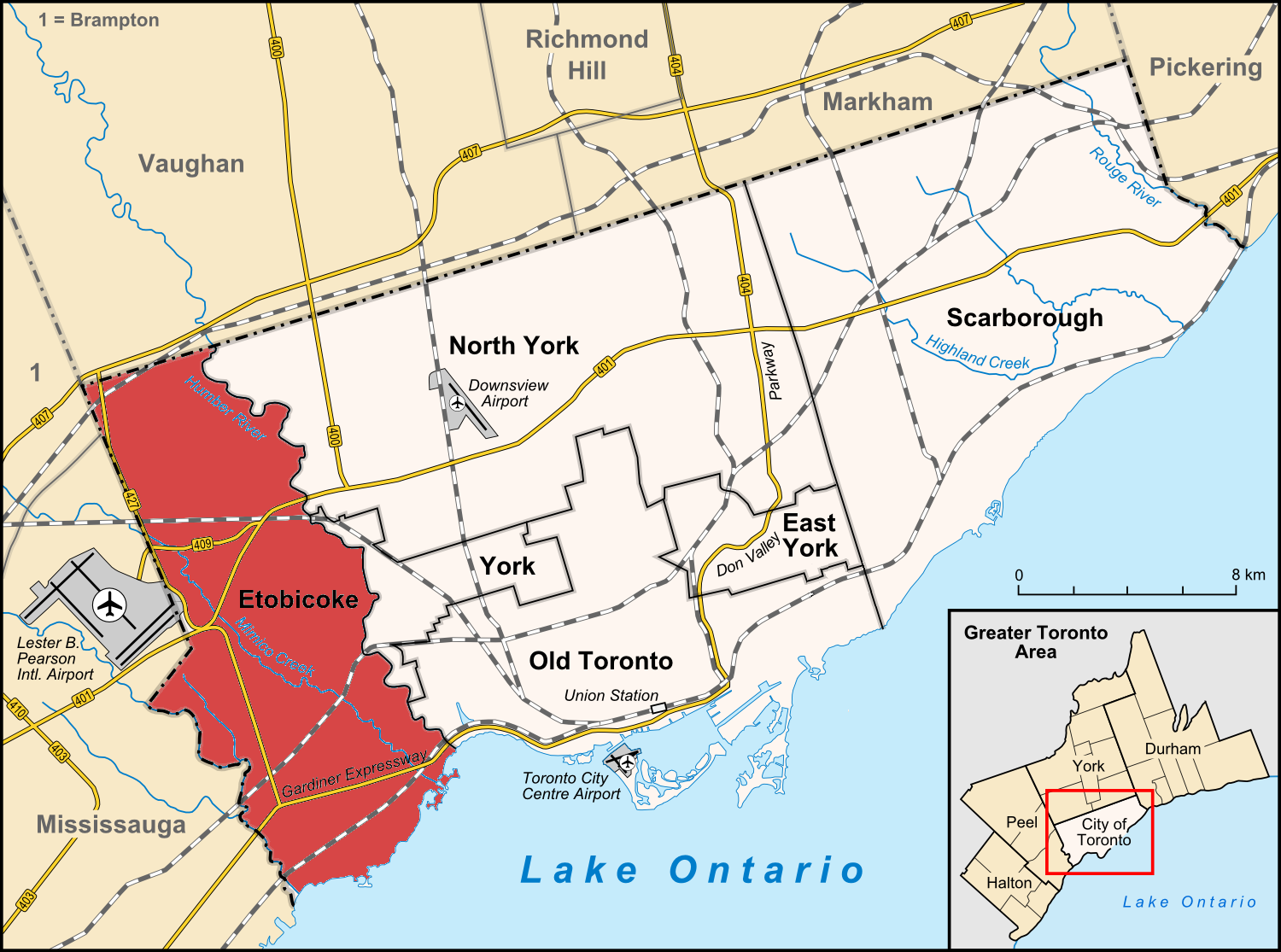 Map of Toronto